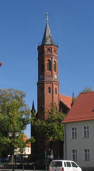 Neo-gothic church in Niemegk, built in 1853 according to plans by Friedrich August Stüler; in the house on the right worked Robert Koch in 1868/69. The town Niemegk is a part of the Potsdam Mittelmark, state Brandenburg, Germany.